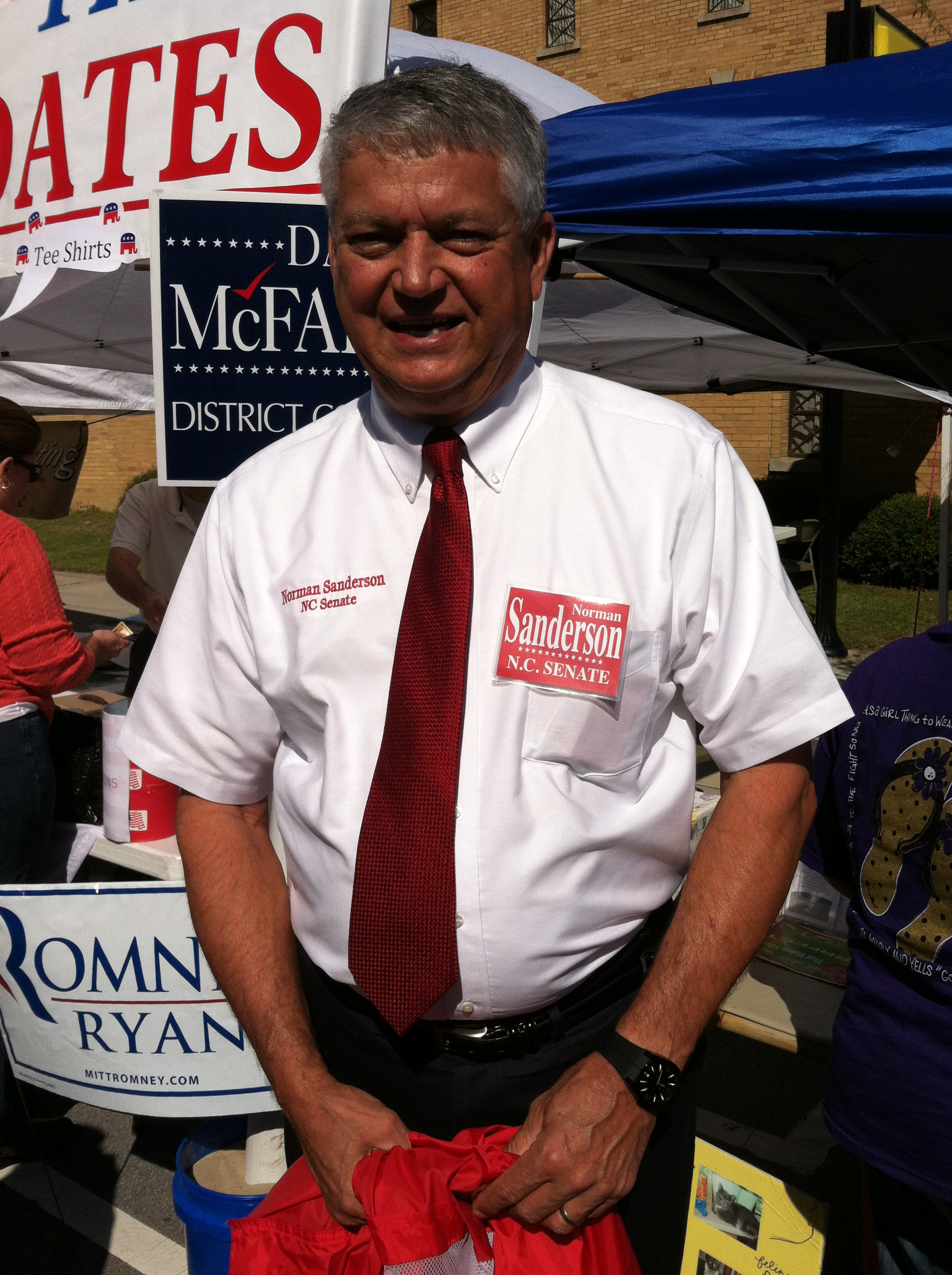 A photo of North Carolina State Representive Norman W. Sanderson taken at the 2012 MumFest.